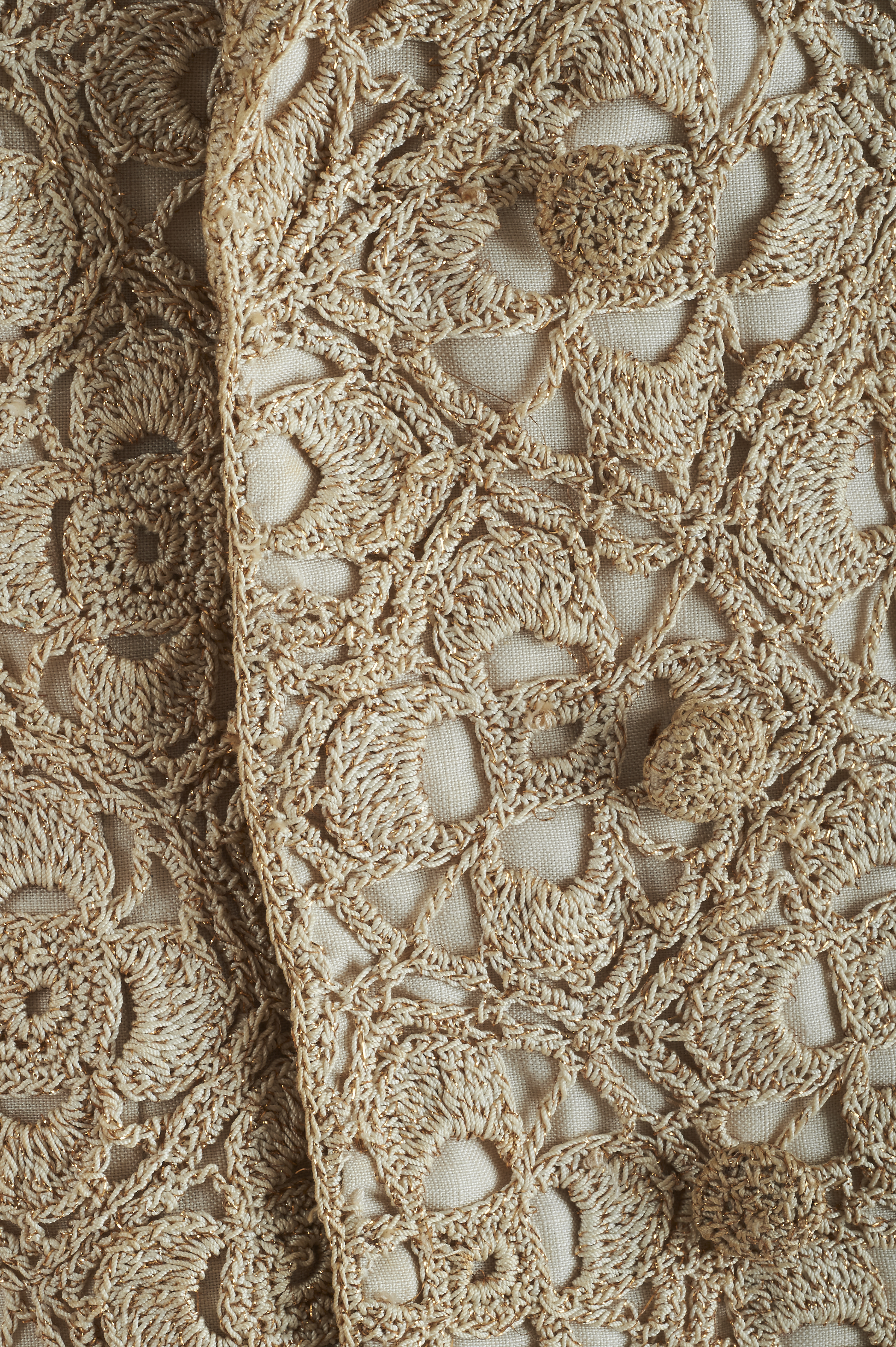 This is a short cream jacket over linen with three button and silk lining. This jacket belonged to Gertrude Hunt. Sybil Connolly liked to use traditional fabrics and craftwork and give them an up-date twist as shown here in the use of gold thread for the crochet. HM 1999.16